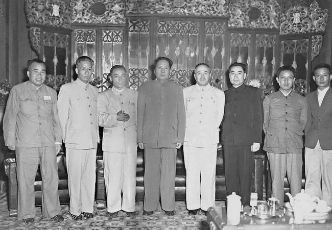 The leaders of CCP with Saifuddin Azizi, Burhan Shahidi, Deng Liqun. From left: Zhu De, Liu Shaoqi, Saifuddin Azizi, Mao Zedong, Burhan Shahidi, Zhou Enlai, Deng Liqun, Delin